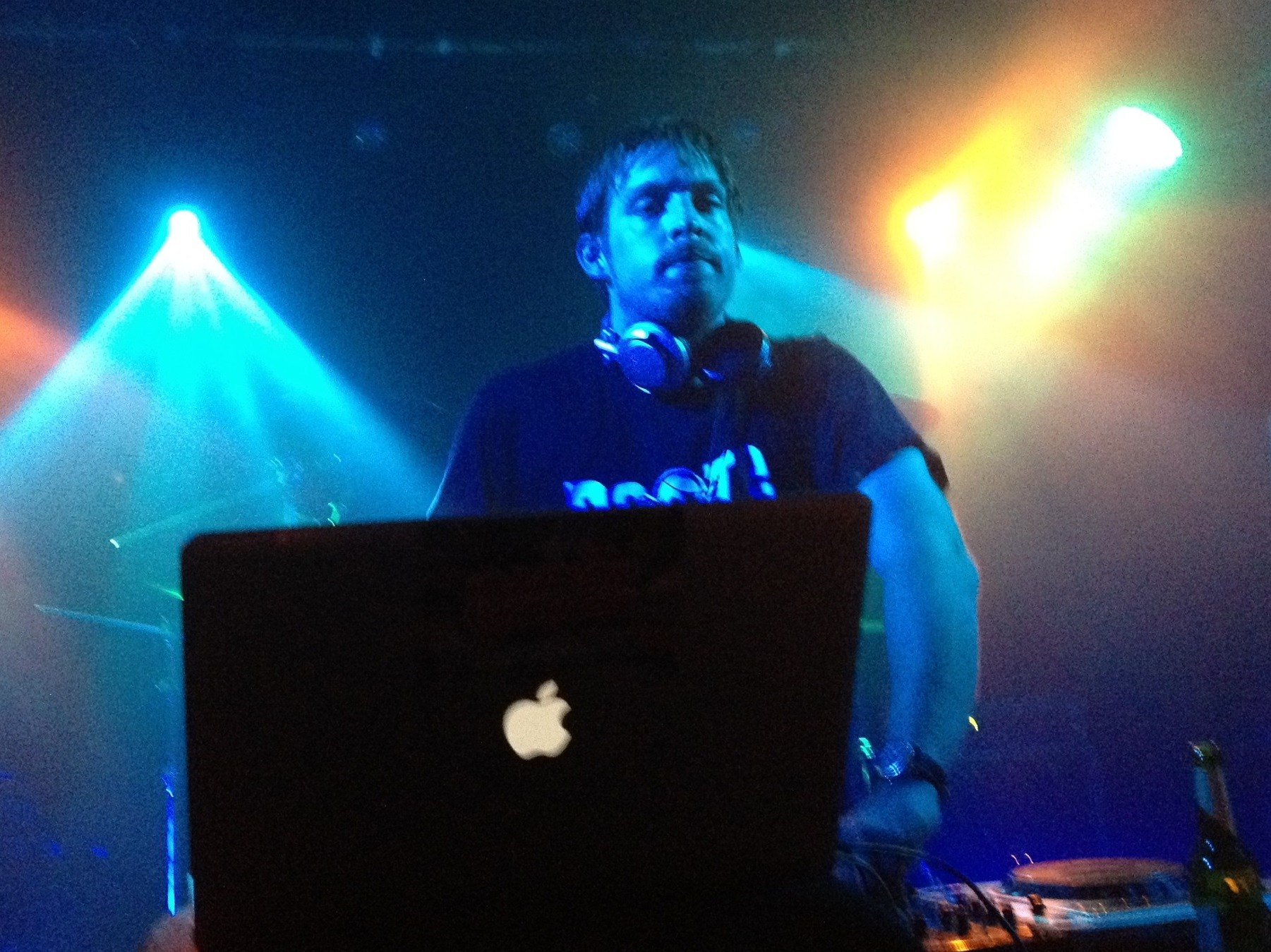 @Cassiopeia: Ben Stilller - Mashup Germany - Bootie Berlin (2012)